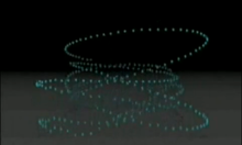 demo effect